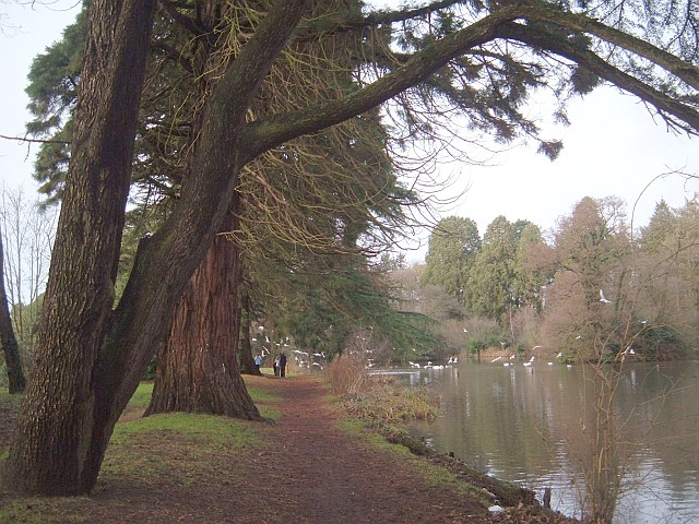 Lake at Tredegar House Country Park An artificial lake created in 1790.